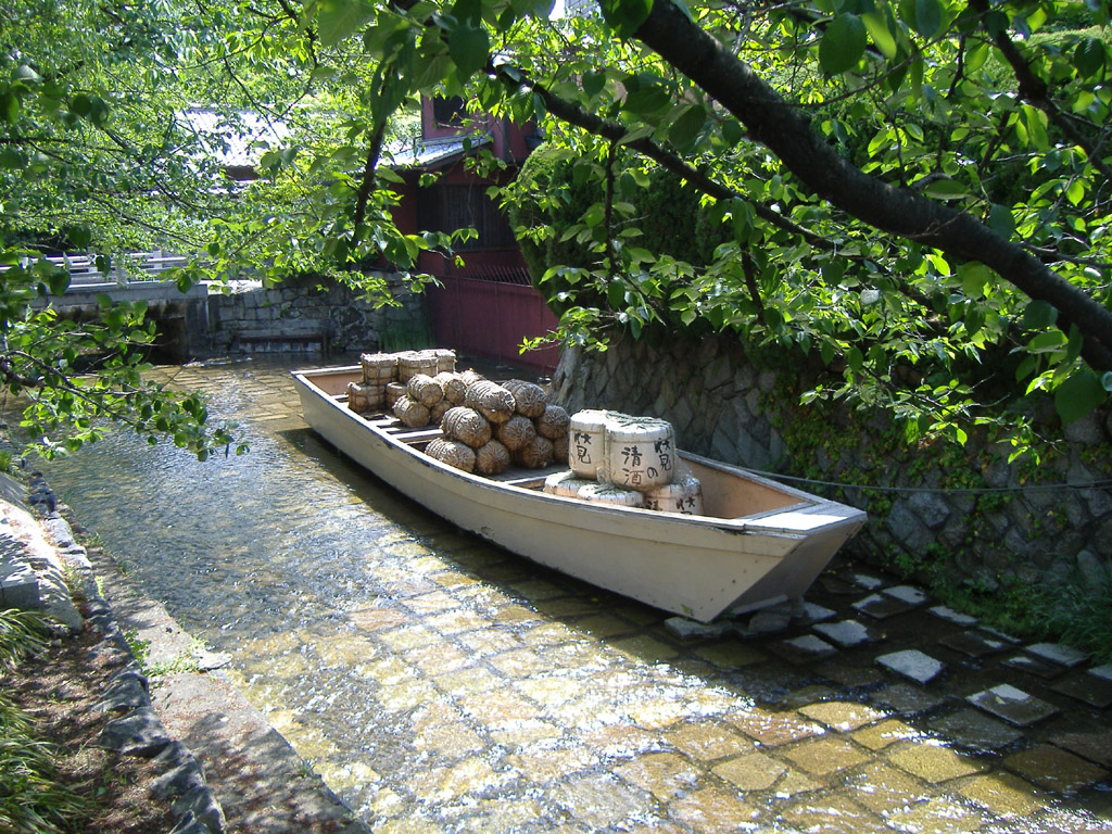 Takase-bune(mock-up) which was put in "Ichino-Funairi" of Takase River, Kyoto, Japan